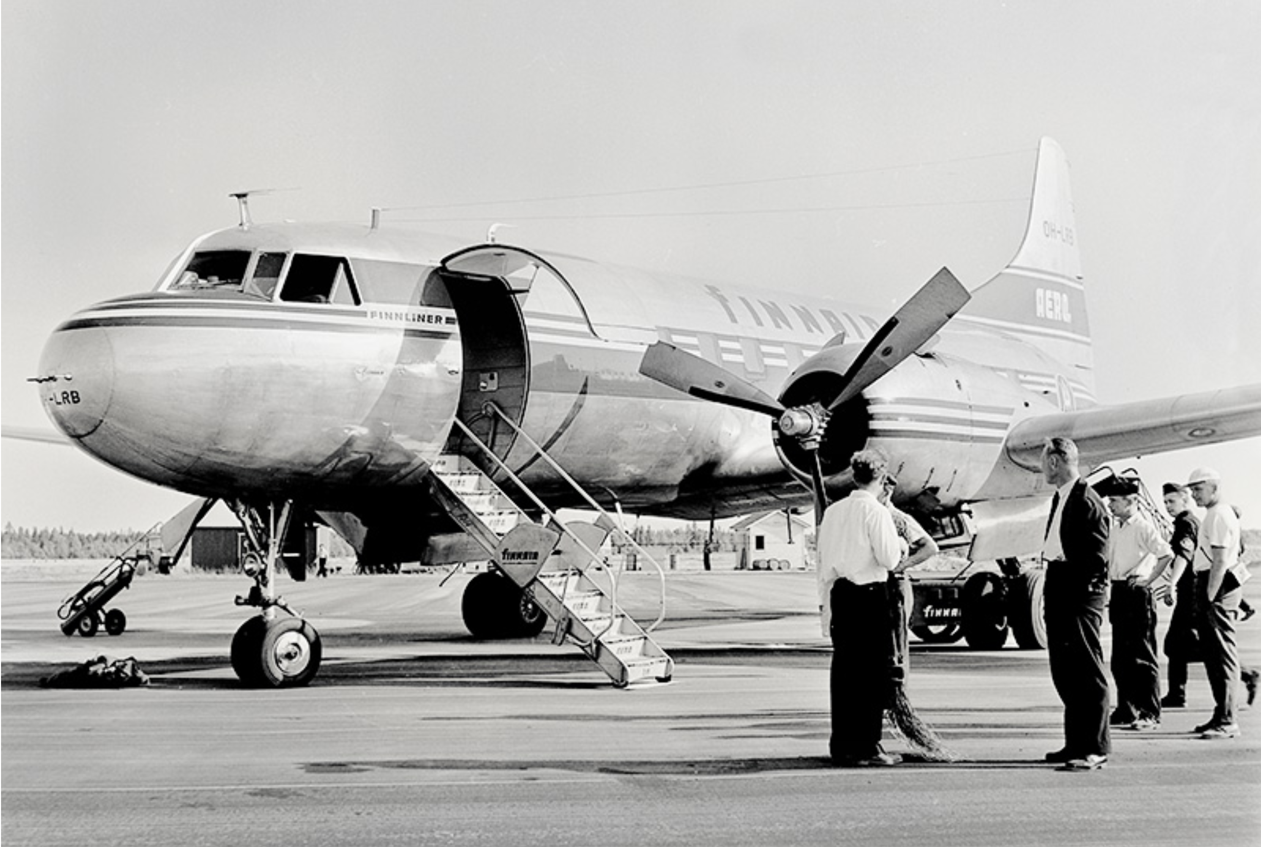 Aero Oy Convair Metropolitan OH-LRB in Oulu in 1957 by Raimo Sallanko